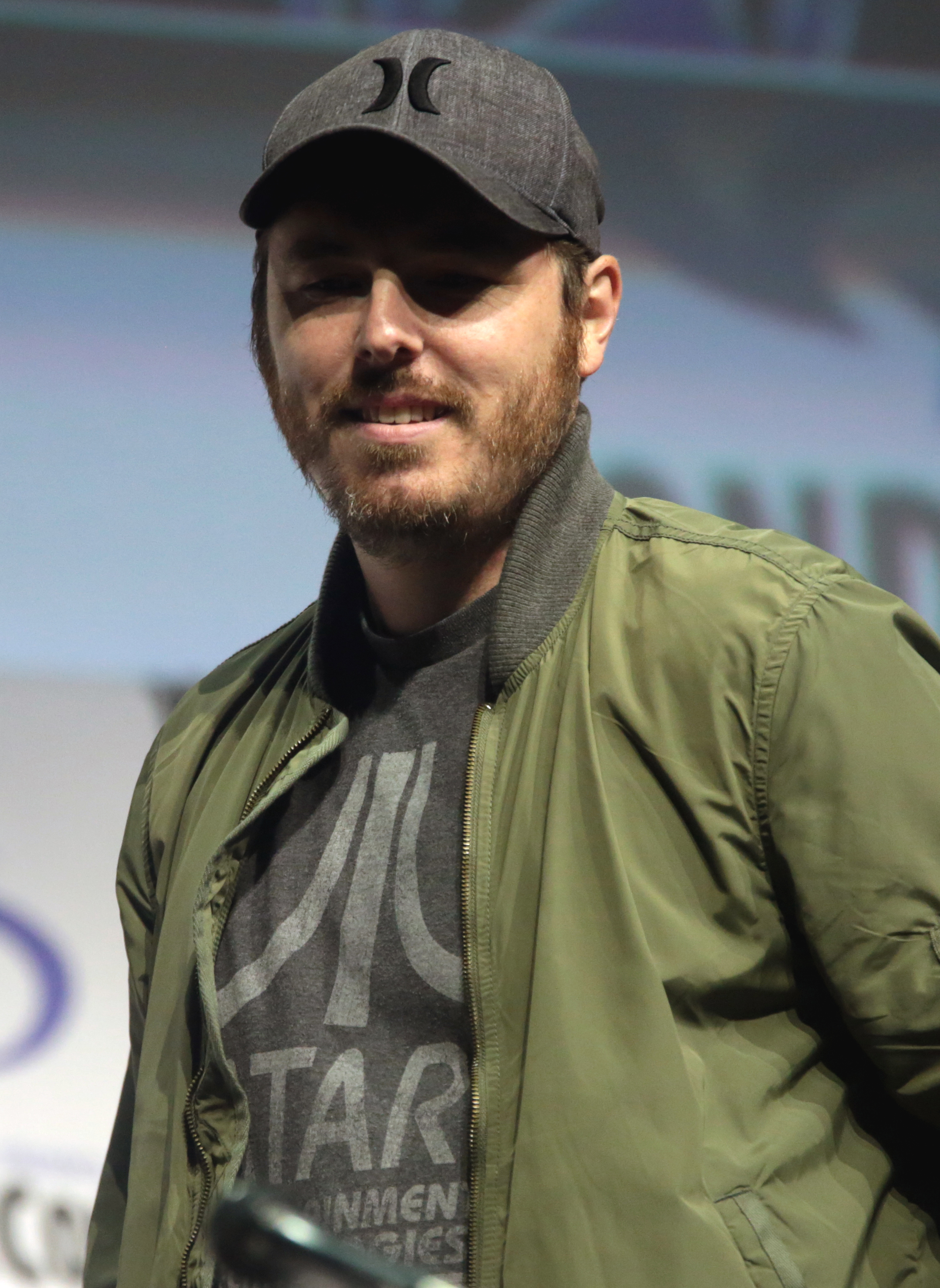 Phil Bourassa speaking at the 2017 WonderCon in Anaheim, California.